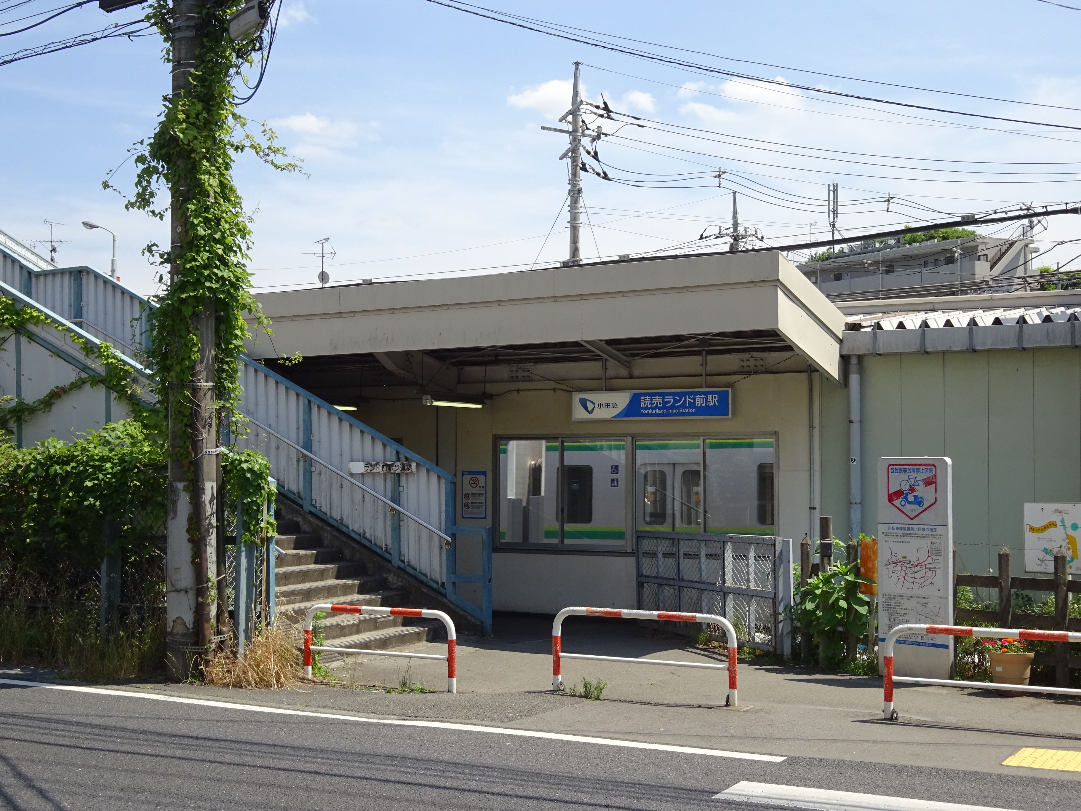 North entrance of Yomiuri-Land-mae Station